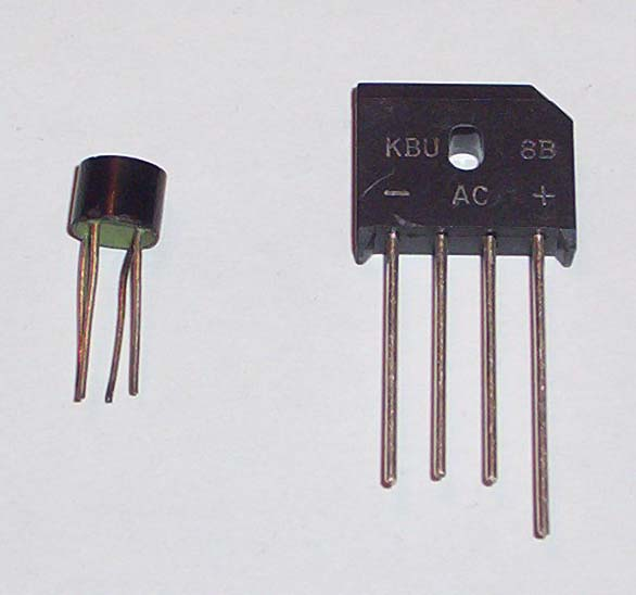 Encapsulated bridge rectifiers. Right: A bridge rectifier (KBU8B) rated to 8A. Left: A rectifier for smaller currents.